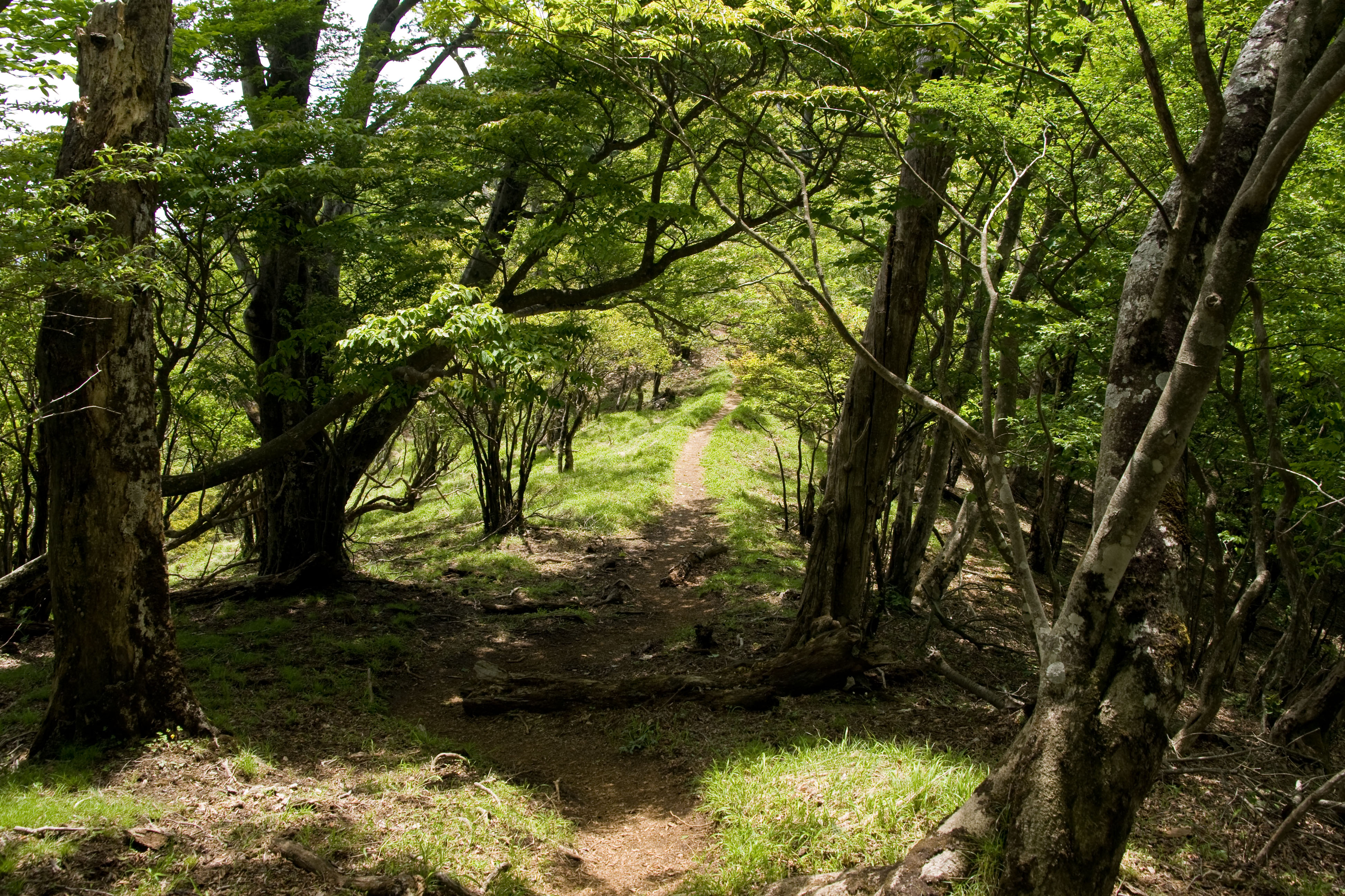 Baba Pass in Tanzawa Mountains, Honshu, Japan.